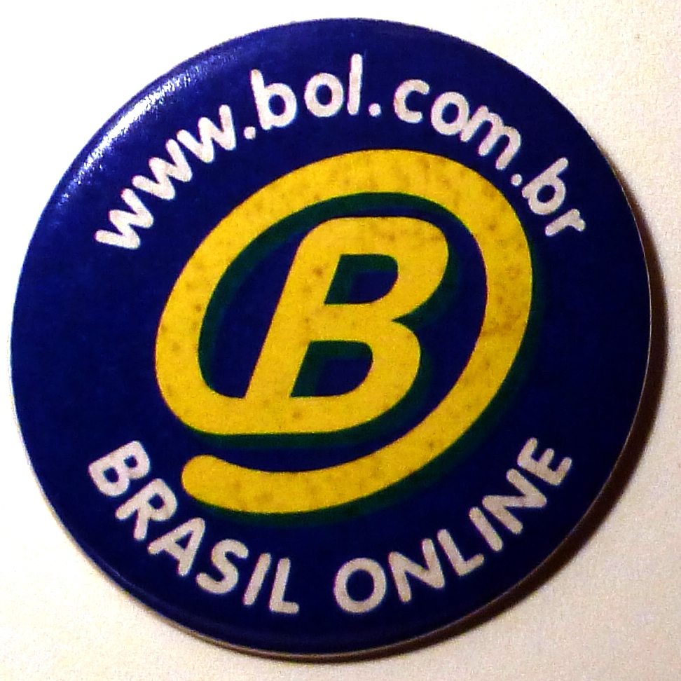 Brasil Online button, produced in 1995. Logo created by the type designer Tony de Marco